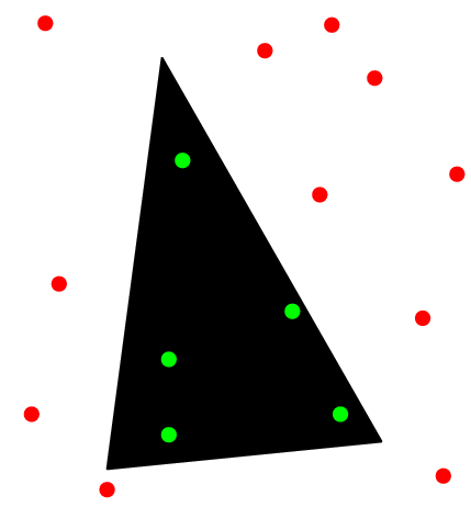 Simplex range searching.